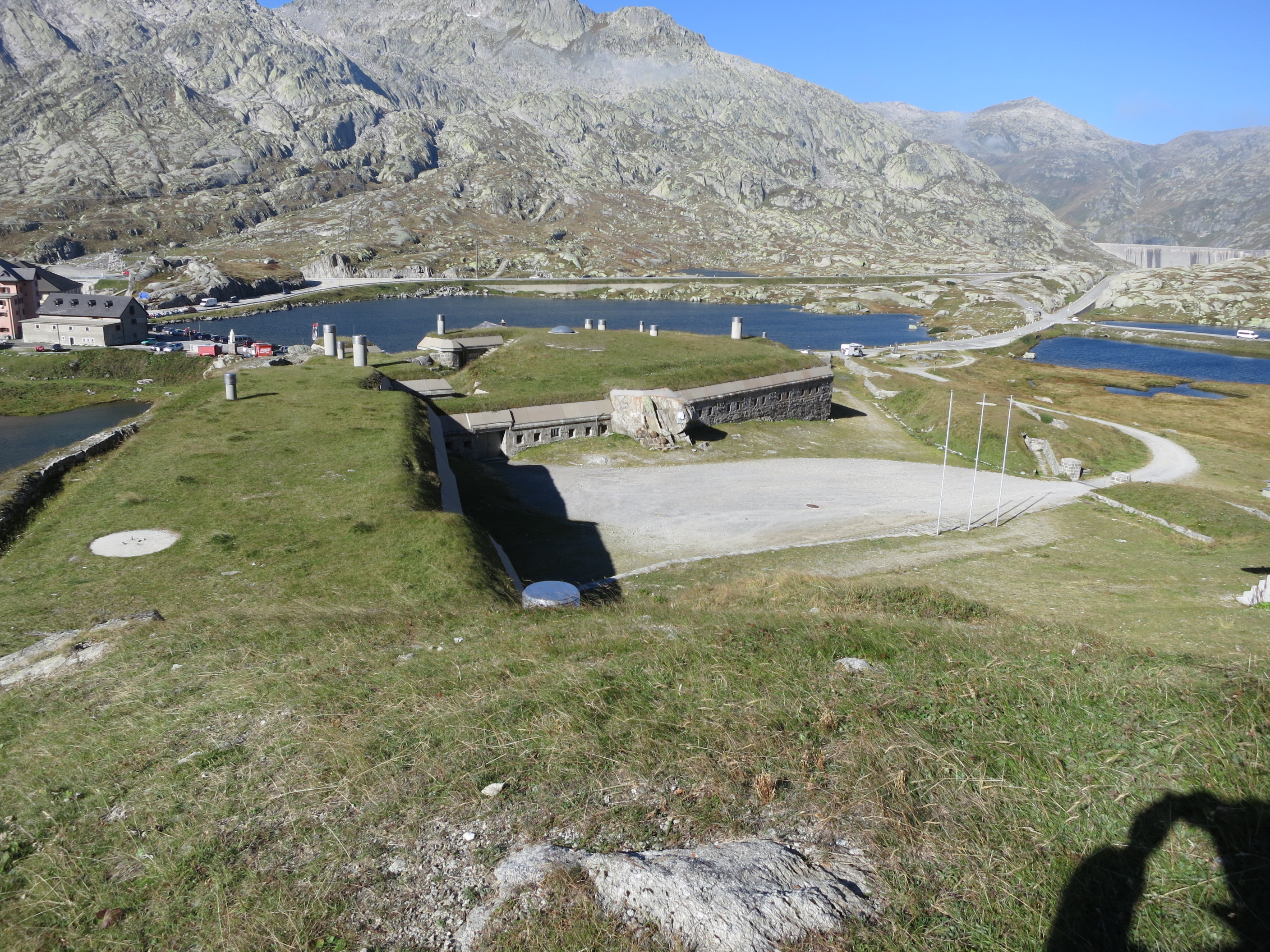 Fort Hospiz, Airolo, Schweiz